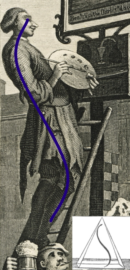 Detail of Sign Painter from Beer Street